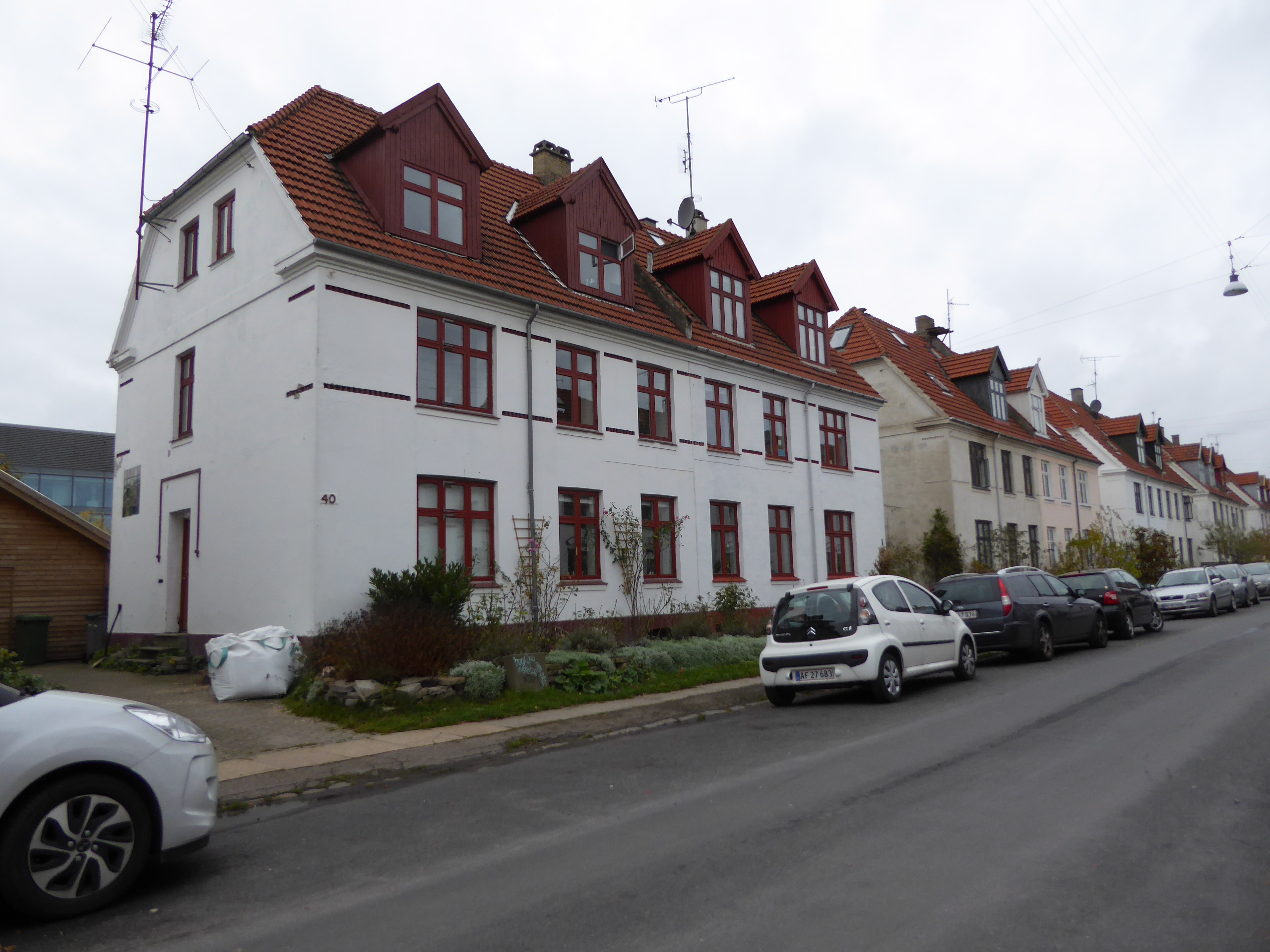 Kløverbladsgade 40, Valby, Copenhagen, Denmark.